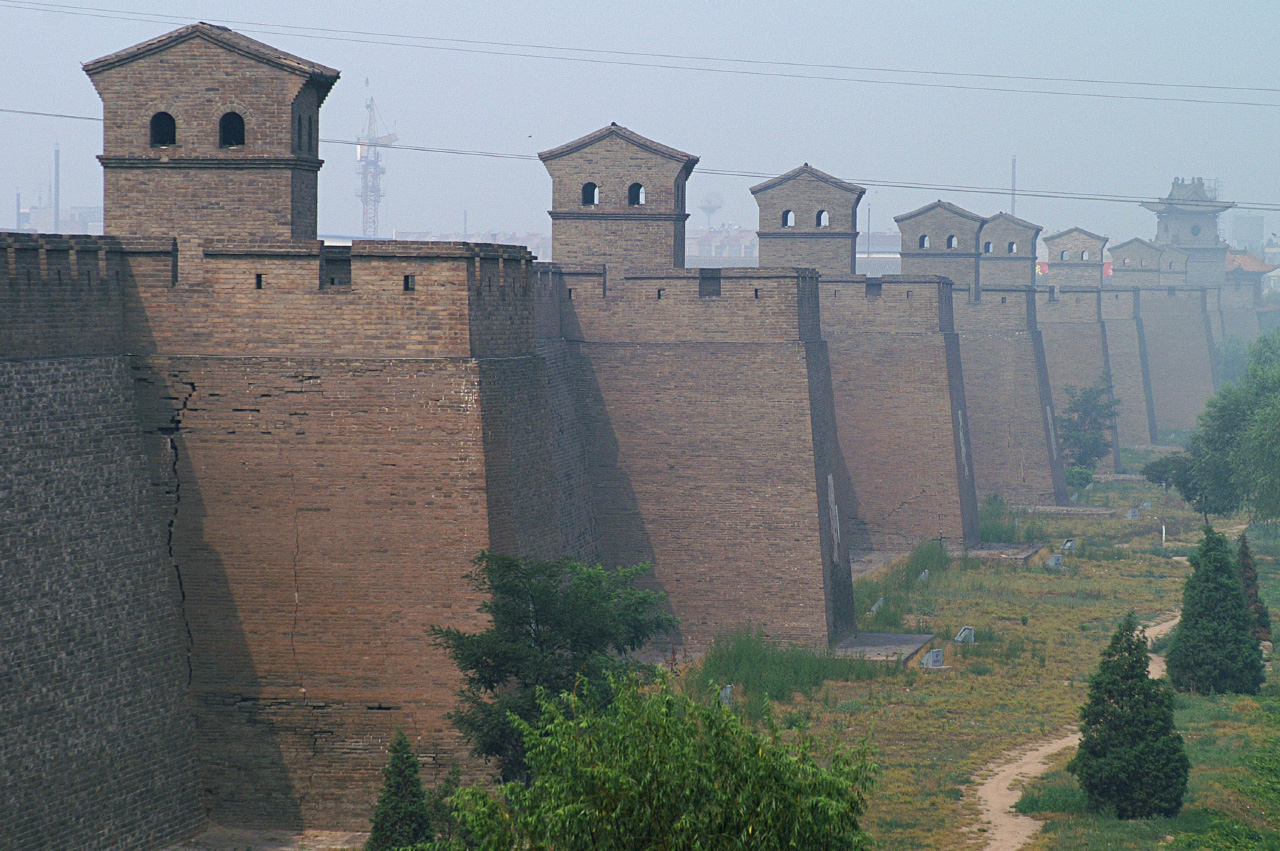 The Wall of Ping Yao city, Shanxi, China中文（中国大陆）: 平遙城牆，中國山西。